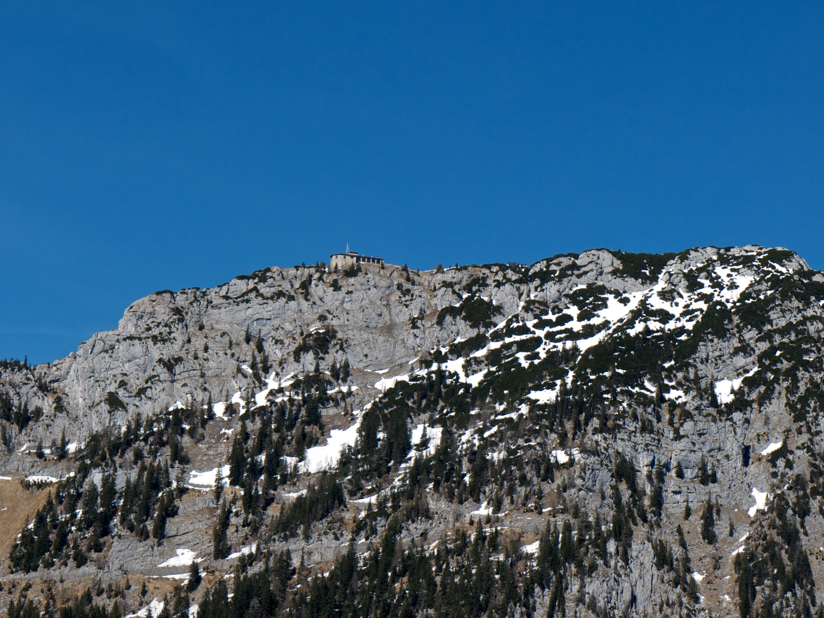 Kehlsteinhaus (The Eagle's Nest) at Obersalzberg from below